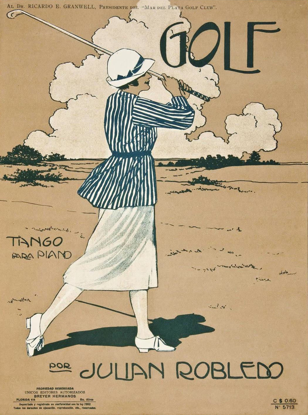 Cover of sheet music. "Golf" Tango by Julián Robledo.